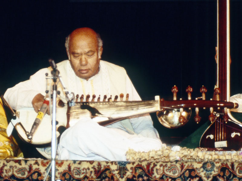 Indian classical musician and master of sarod Ali Akbar Khan, corrected view